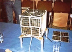 OSCAR-17 (DOVE) satellite. Press released in Brazil. Not copyrighted.